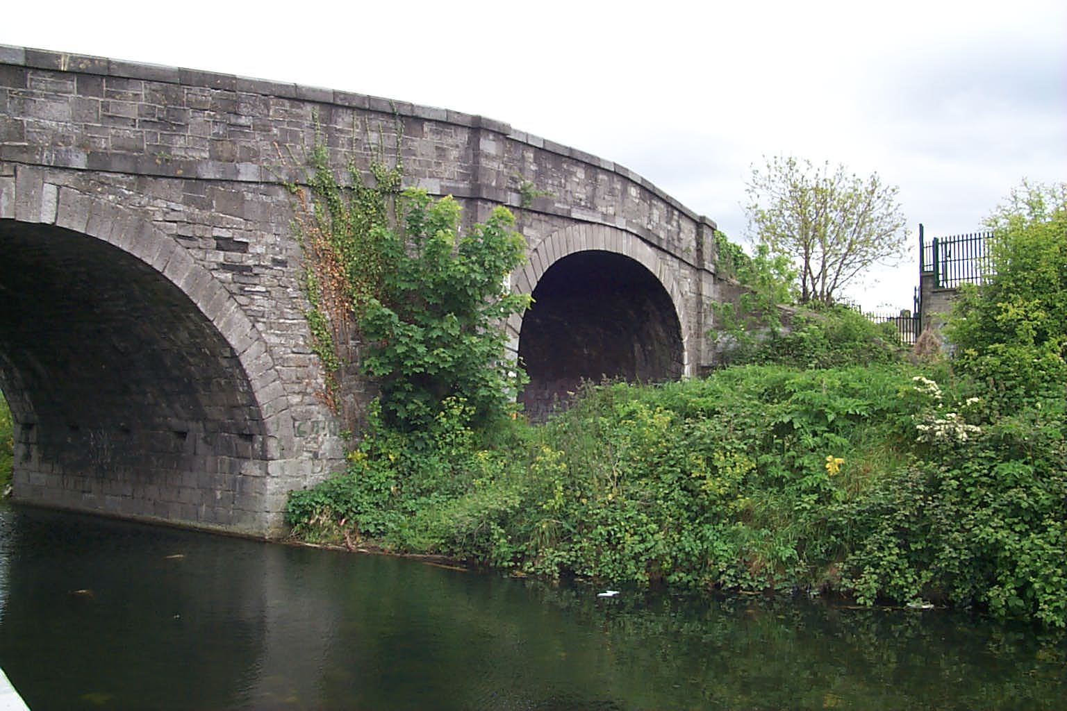 Brougham Bridge in Central Dublin.